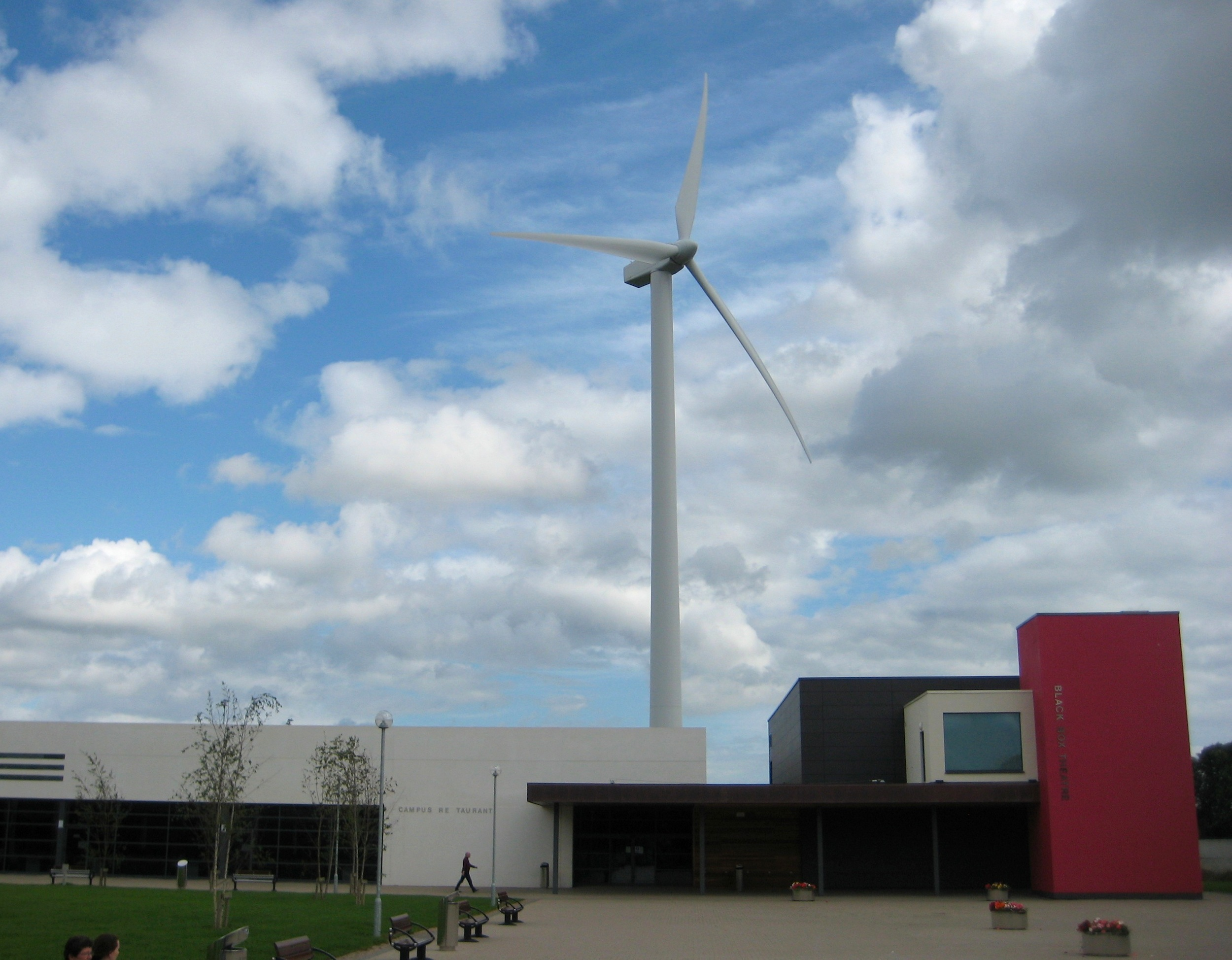 DKIT Black Box Theater, Campus Restaurant and wind turbine